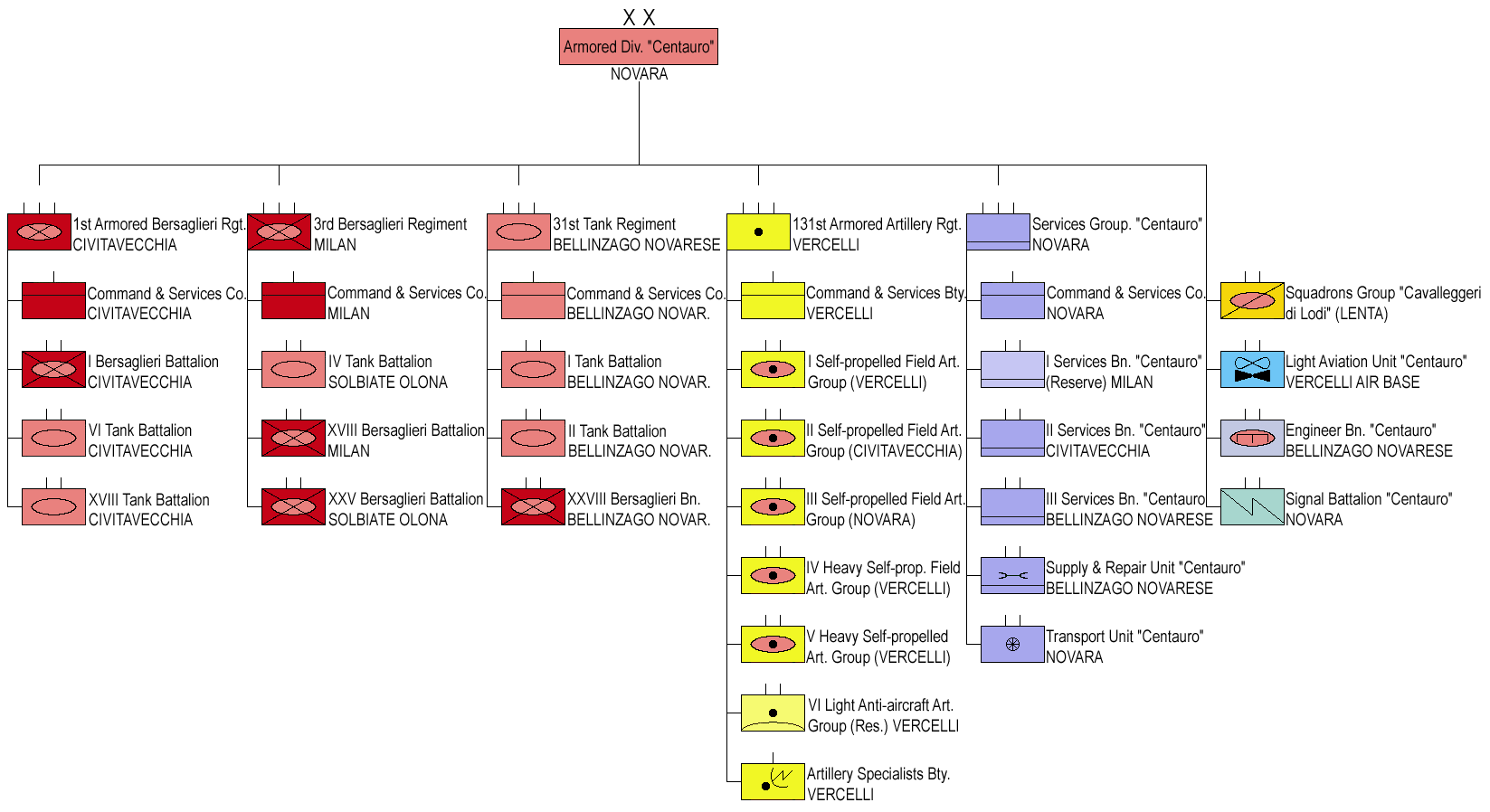 Structure of the Italian Army Armored Division "Centauro" in 1974